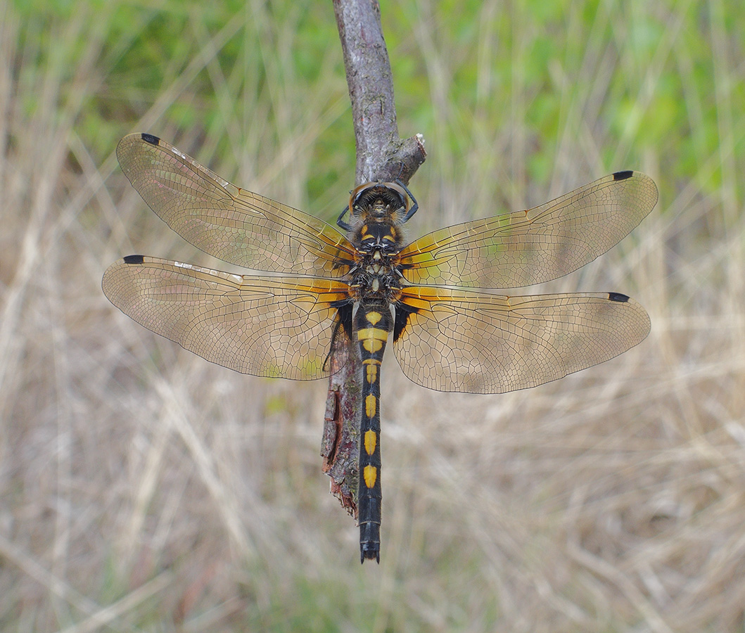 Ruby whiteface (Leucorrhinia rubicunda) in The Netherlands